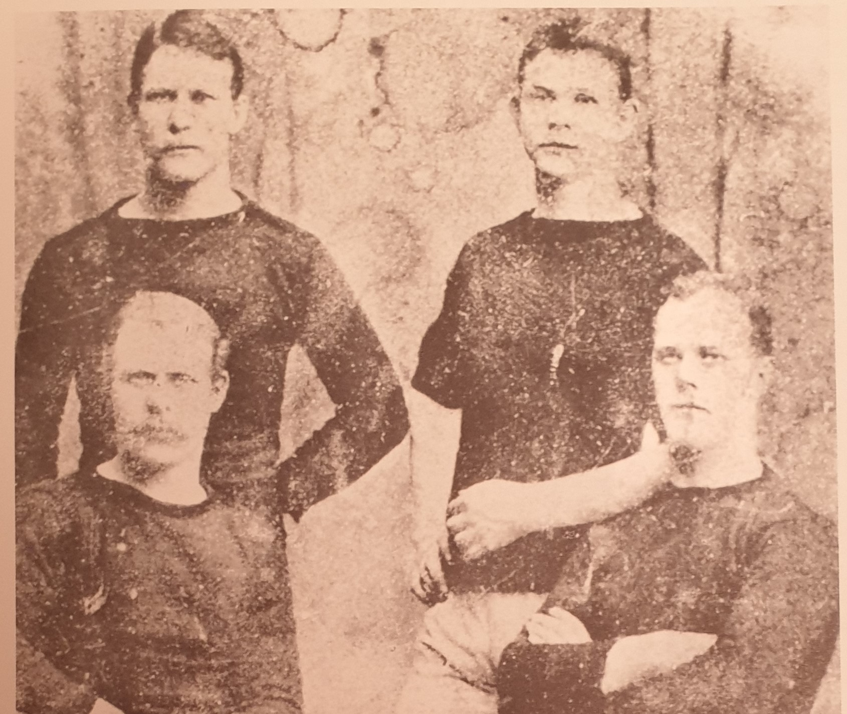 A picture of the four Versfeld brothers, John, Charles, Martinus and Loftus, who represented different rugby union teams in South Africa during the 1890s